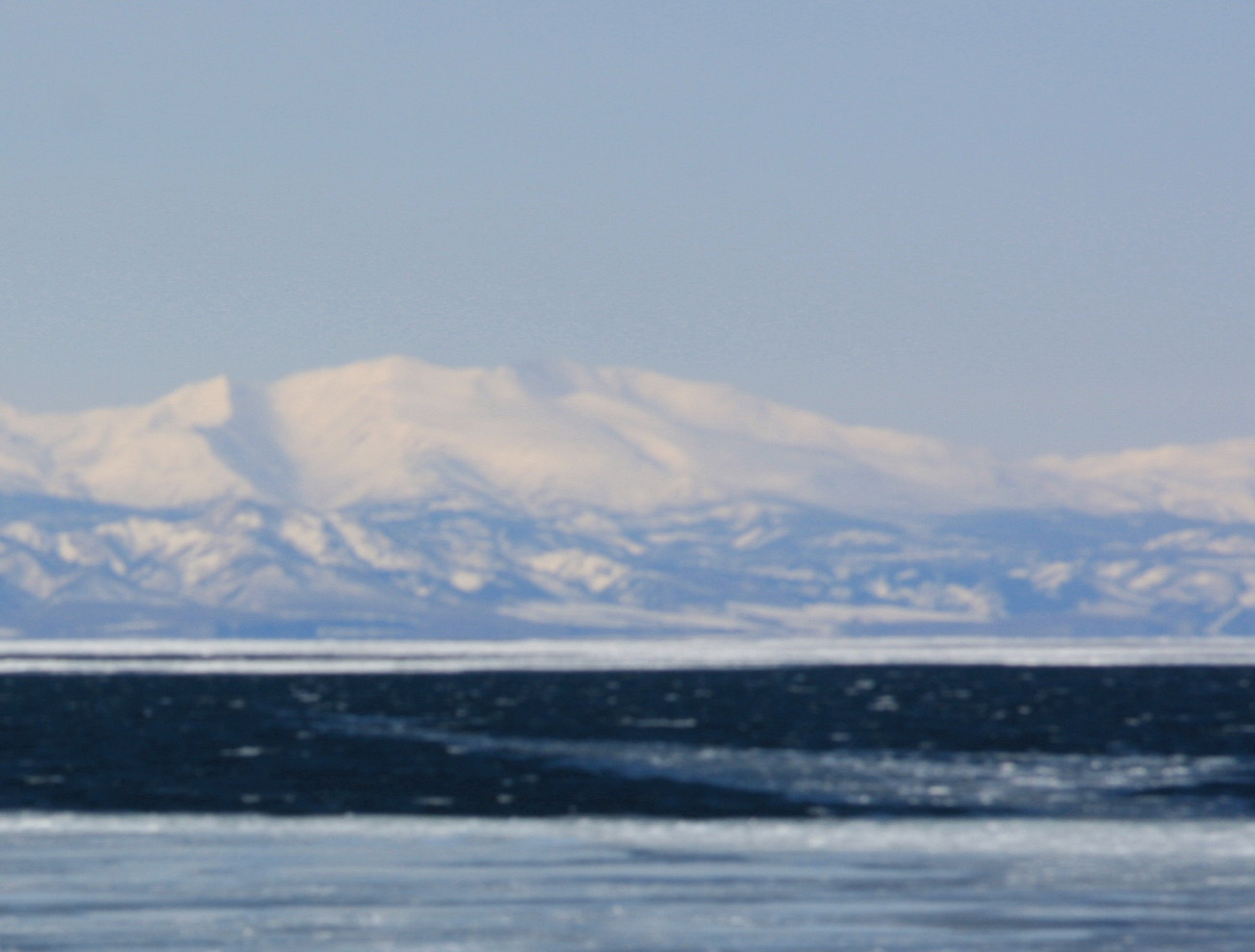 Mount Chinishibetsu seen from the SSE.